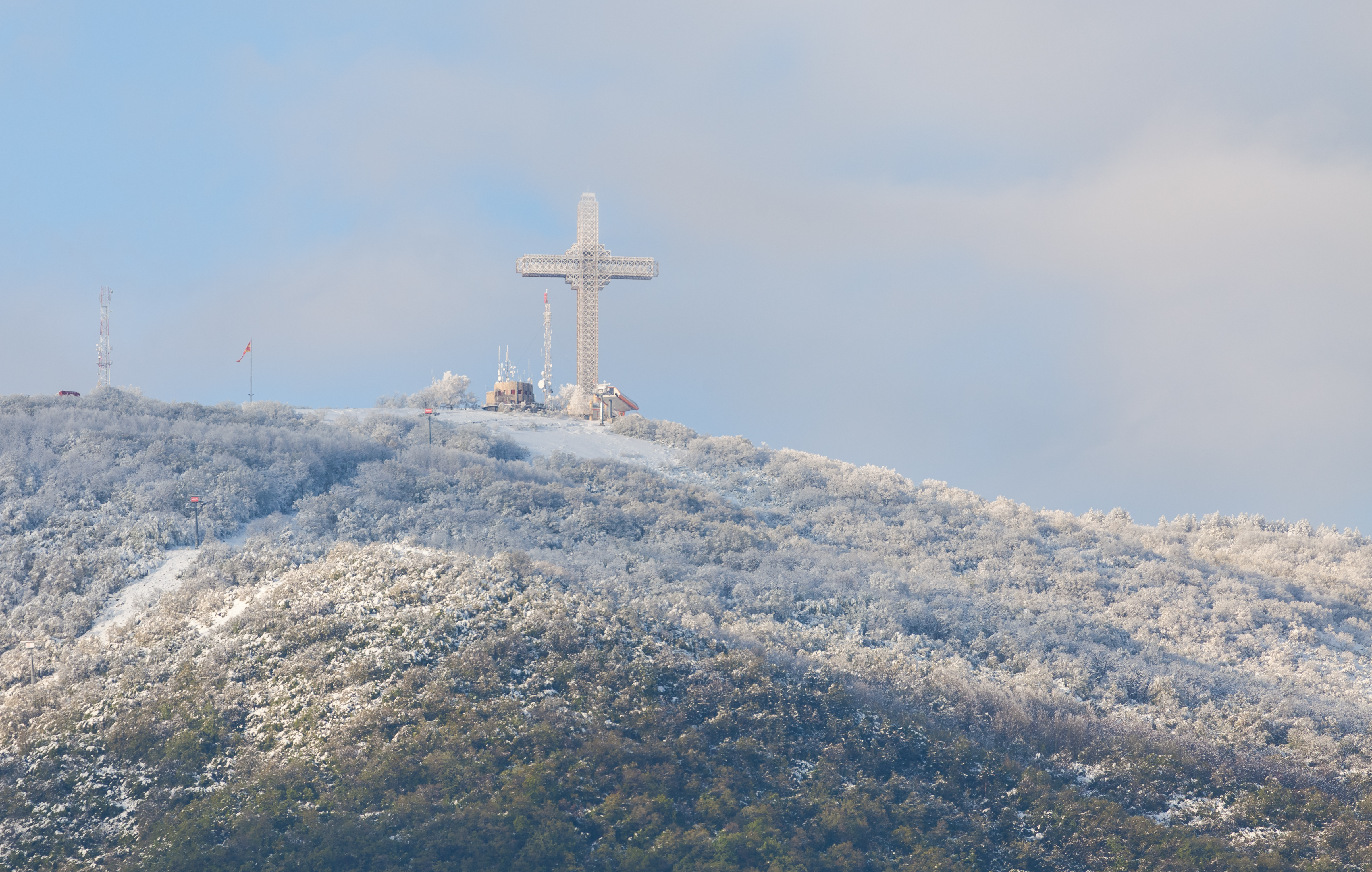 Millennium Cross, Skopje, Macedonia